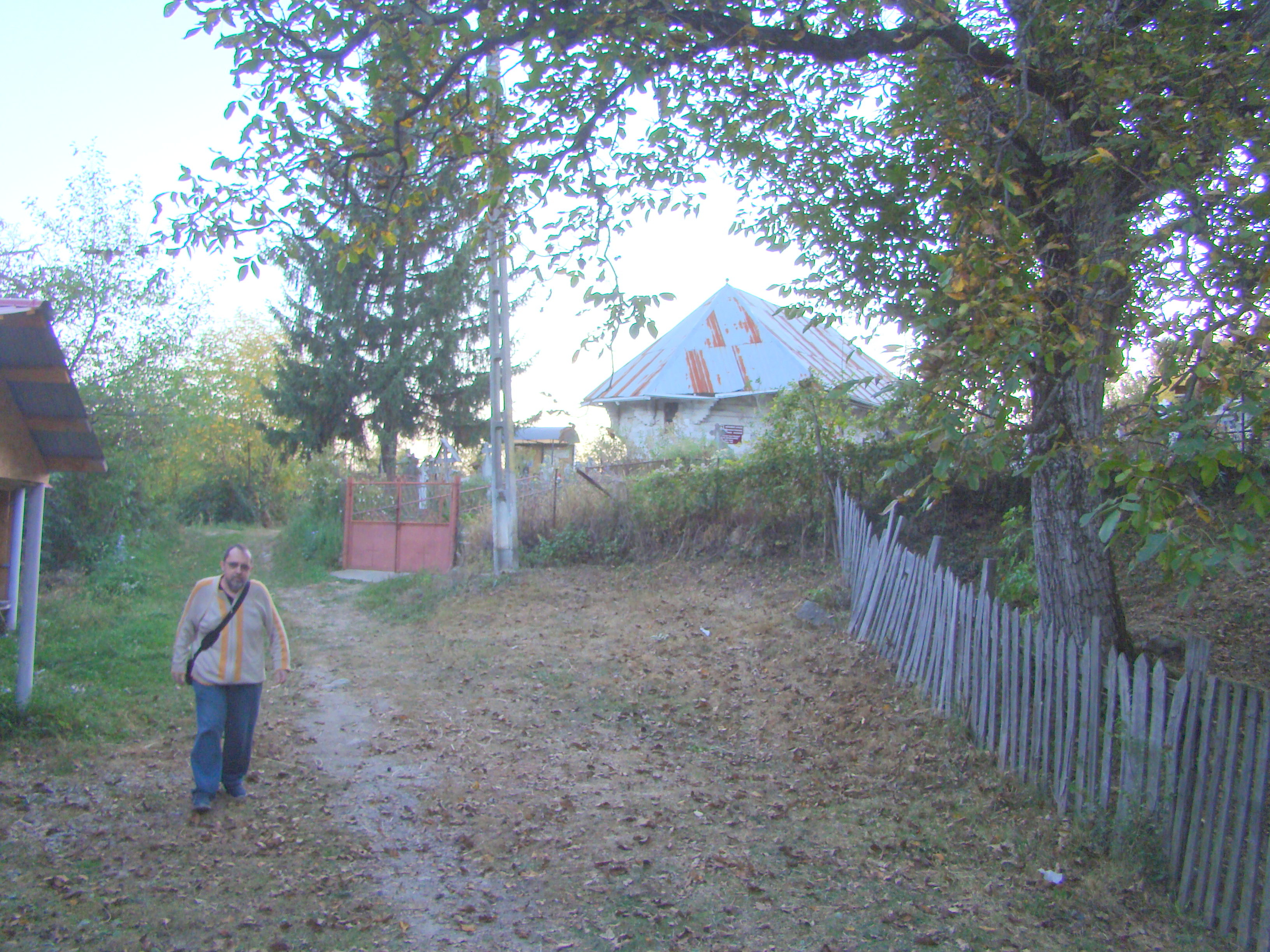 Wooden church in Crasna-Ungureni, Gorj county, Romania